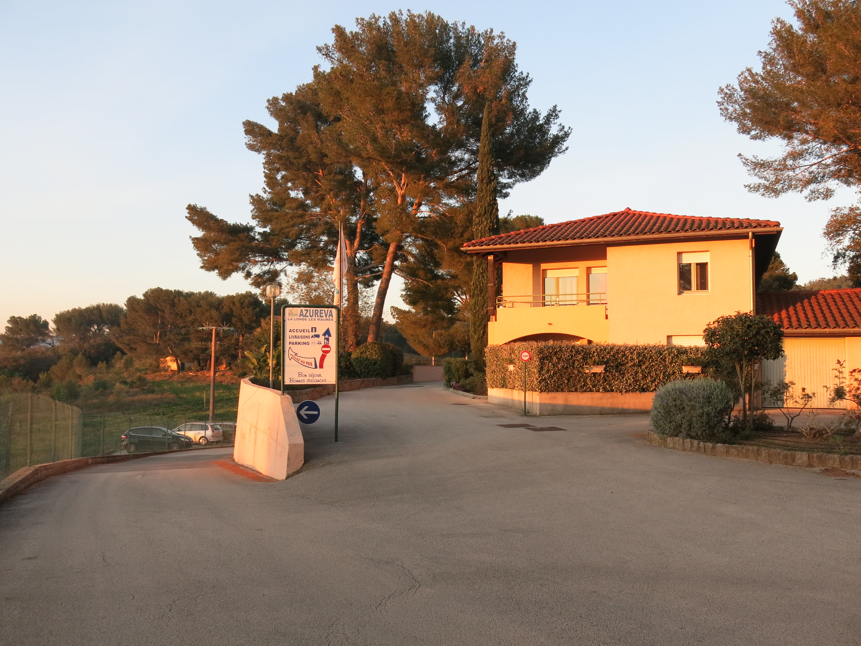 Entrance of the holidays center Azureva La Londe-les-Maures (Var, France).